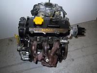 This is a Subaru EF12 Engine.